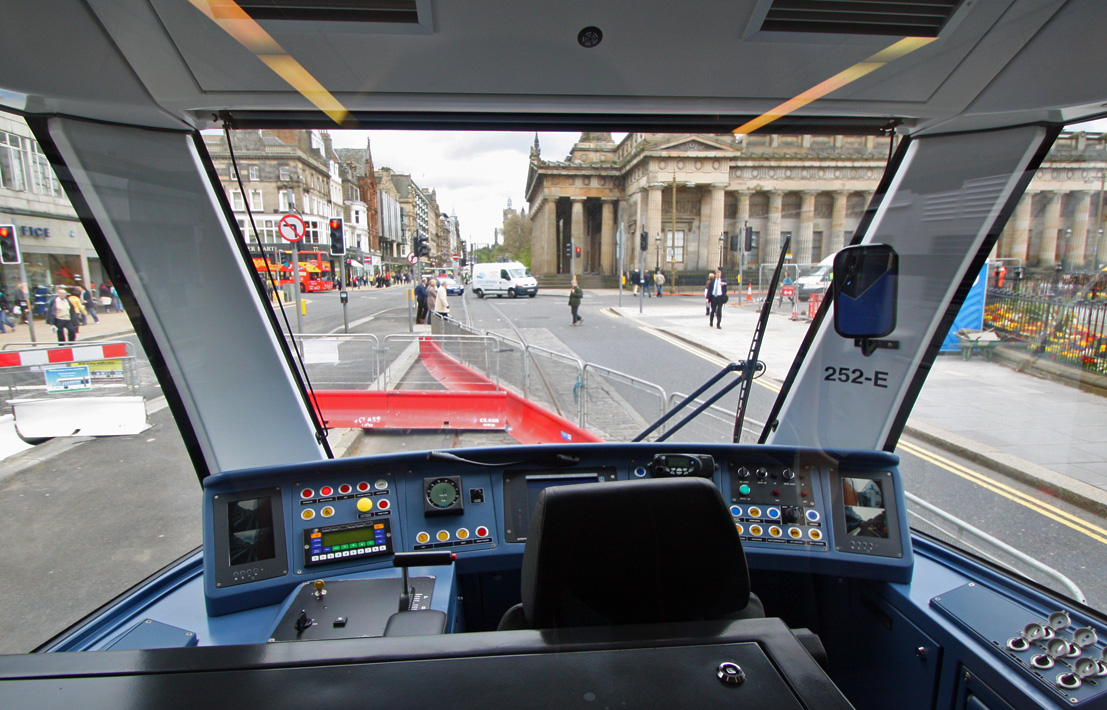 The driver's view on board the first of Edinburgh's new trams. 1081701